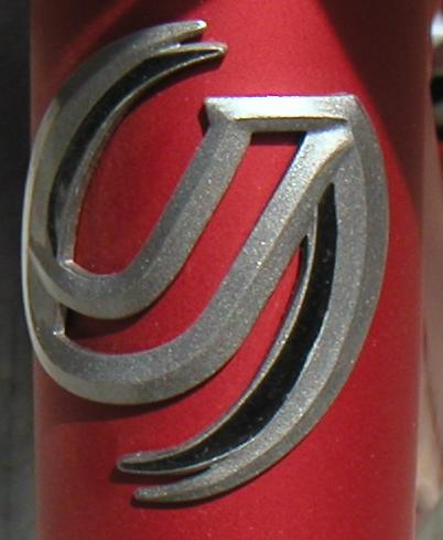 Taken by Andrew Dressel